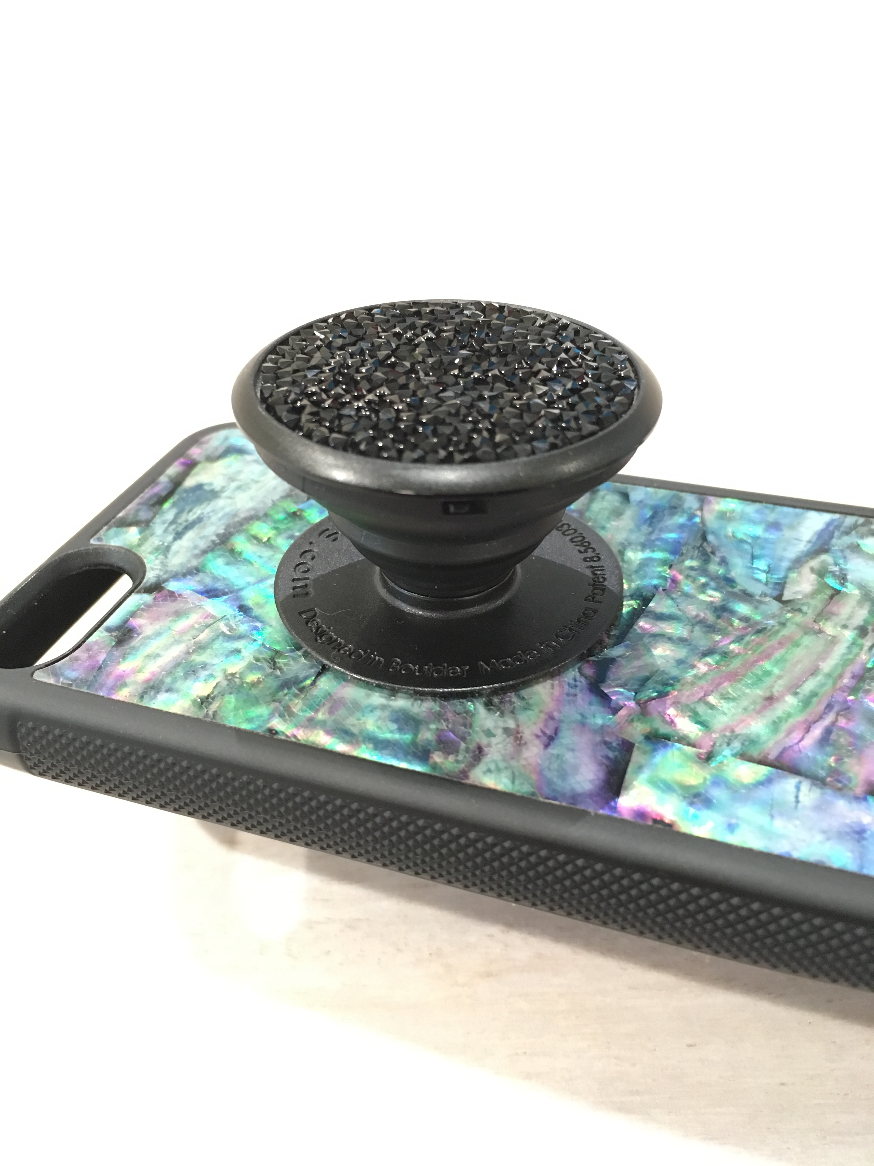 This is this a premium PopSockets grip made with black Swarovski crystals, sticking on a phone case.